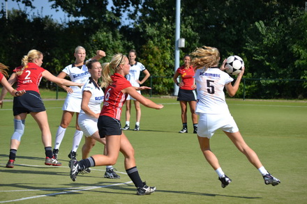 Outdoor korfball match between Swift (Velden) and Spes (Milsbeek)